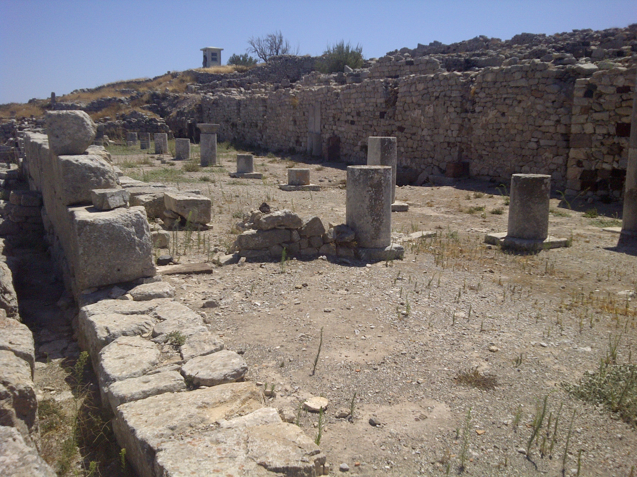 The Agora in the city of Ancient Thira, Santorini, Greece